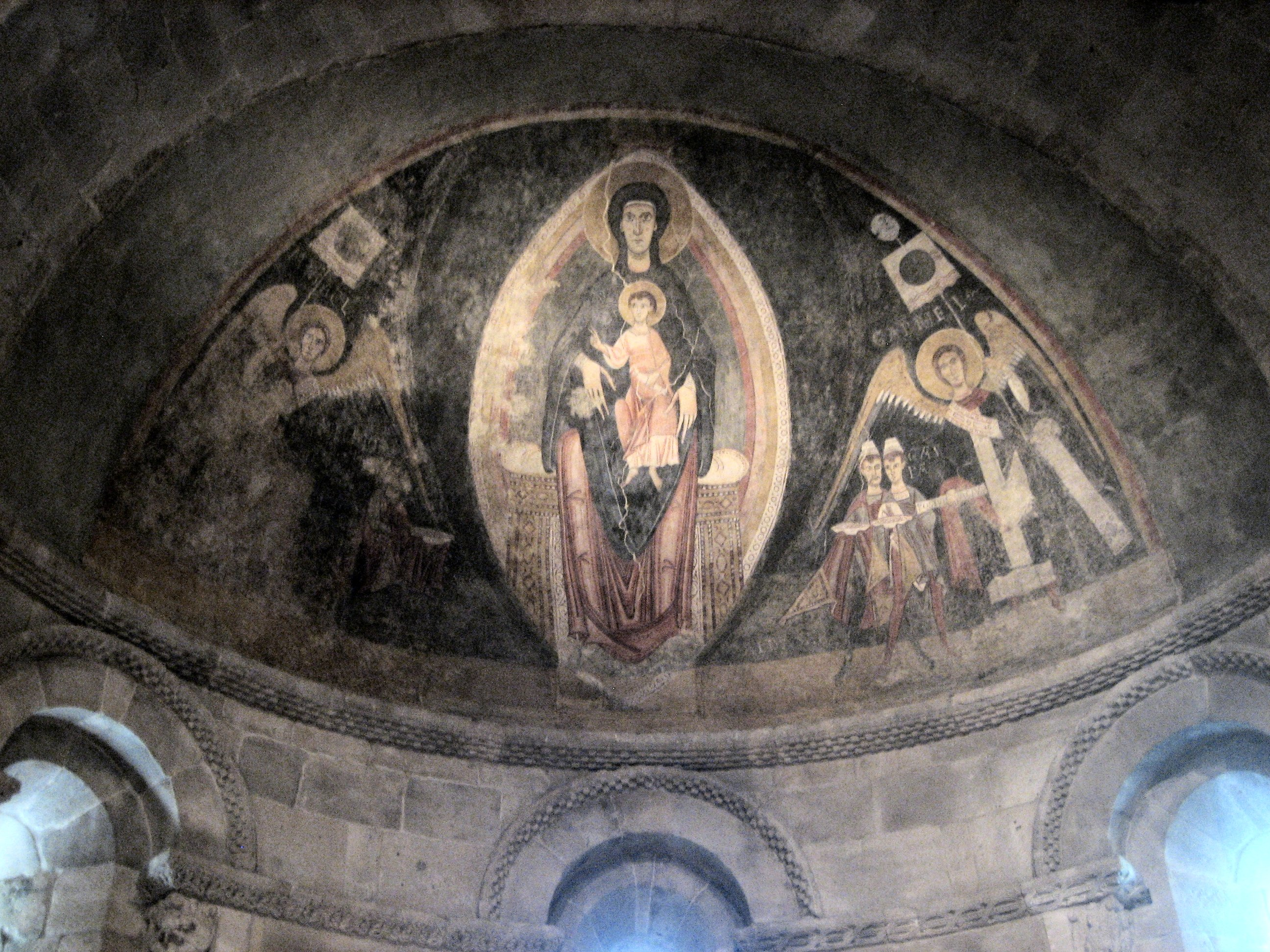 'The Virgin and Child in Majesty and the Adoration of the Maji', Romanesque fresco by the Master of Pedret from the apse of the Church of "La Mare de Deu de Cap d'Aran" (Tredòs), Lleida, Spain, c. 1100